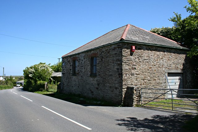 An Old Methodist Chapel on Trevellas Downs. This building now appears to be used as a garage or workshop. It's location is exactly coincident with a building shown on the 1880's map as a Methodist Chapel so judging by the look of the building I would guess it is old enough to be that chapel.